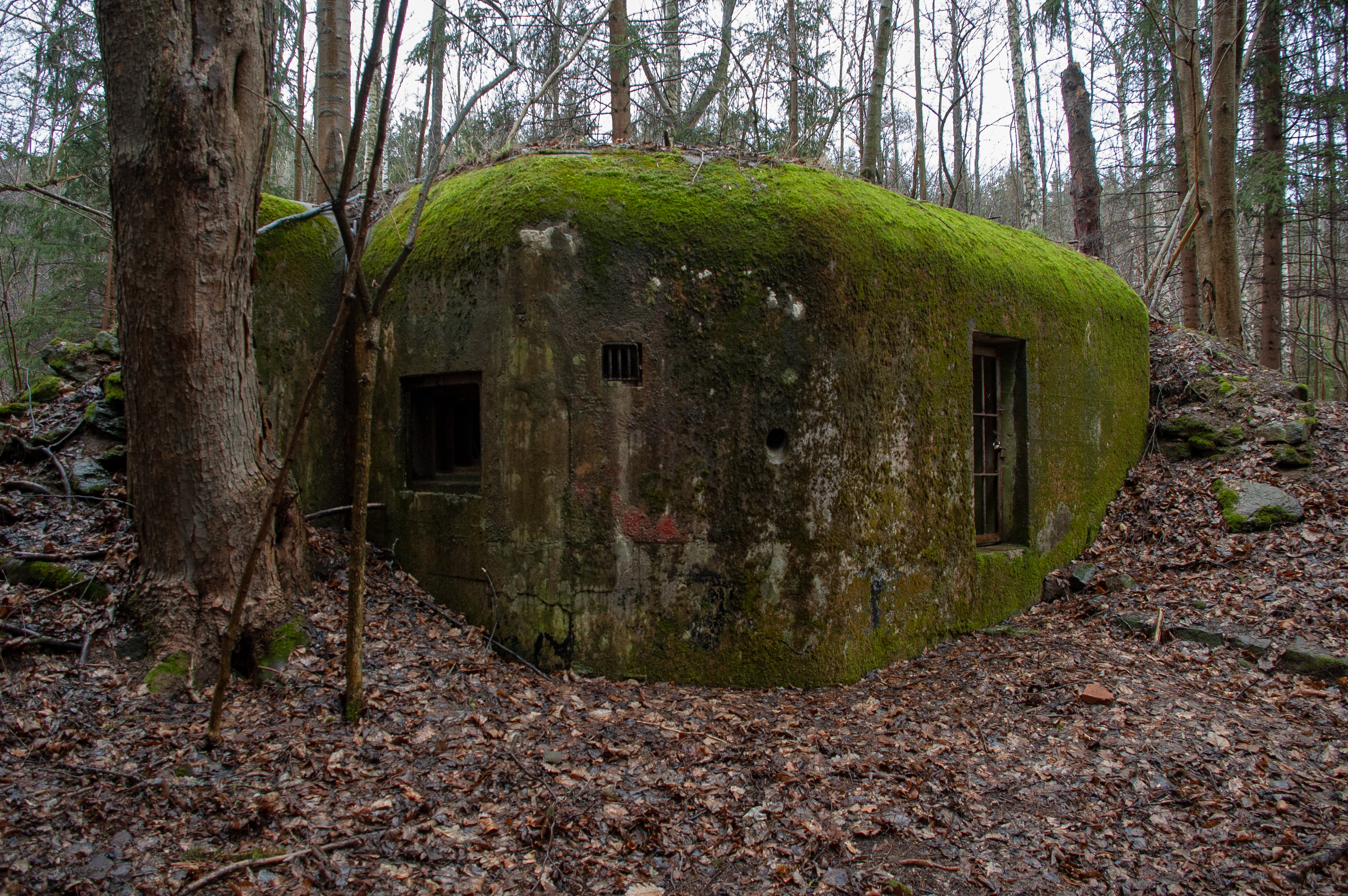 Light pillbox number 14 near Prachatice, Czech Republic. Part of the fortification section H-33.